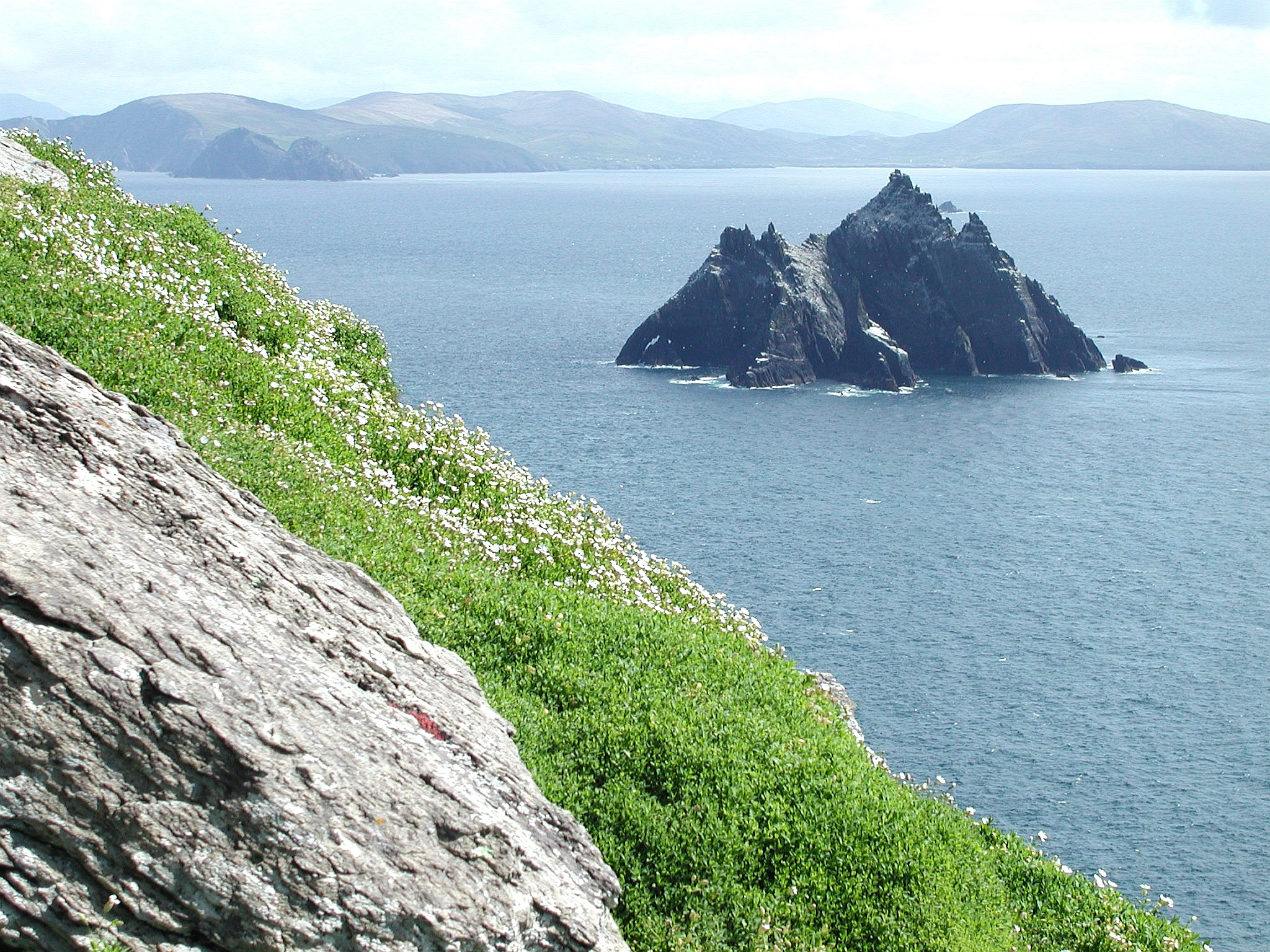 Skellig Islands: View from Skellig Michael to Little Skellig